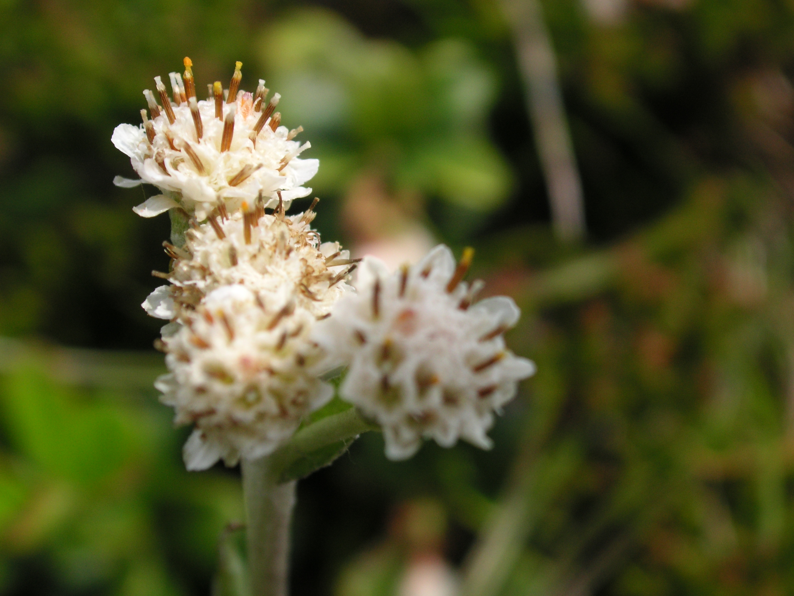 Antennaria dioica